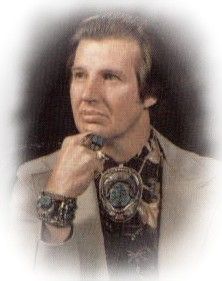 Joe A. Rector circa 1990